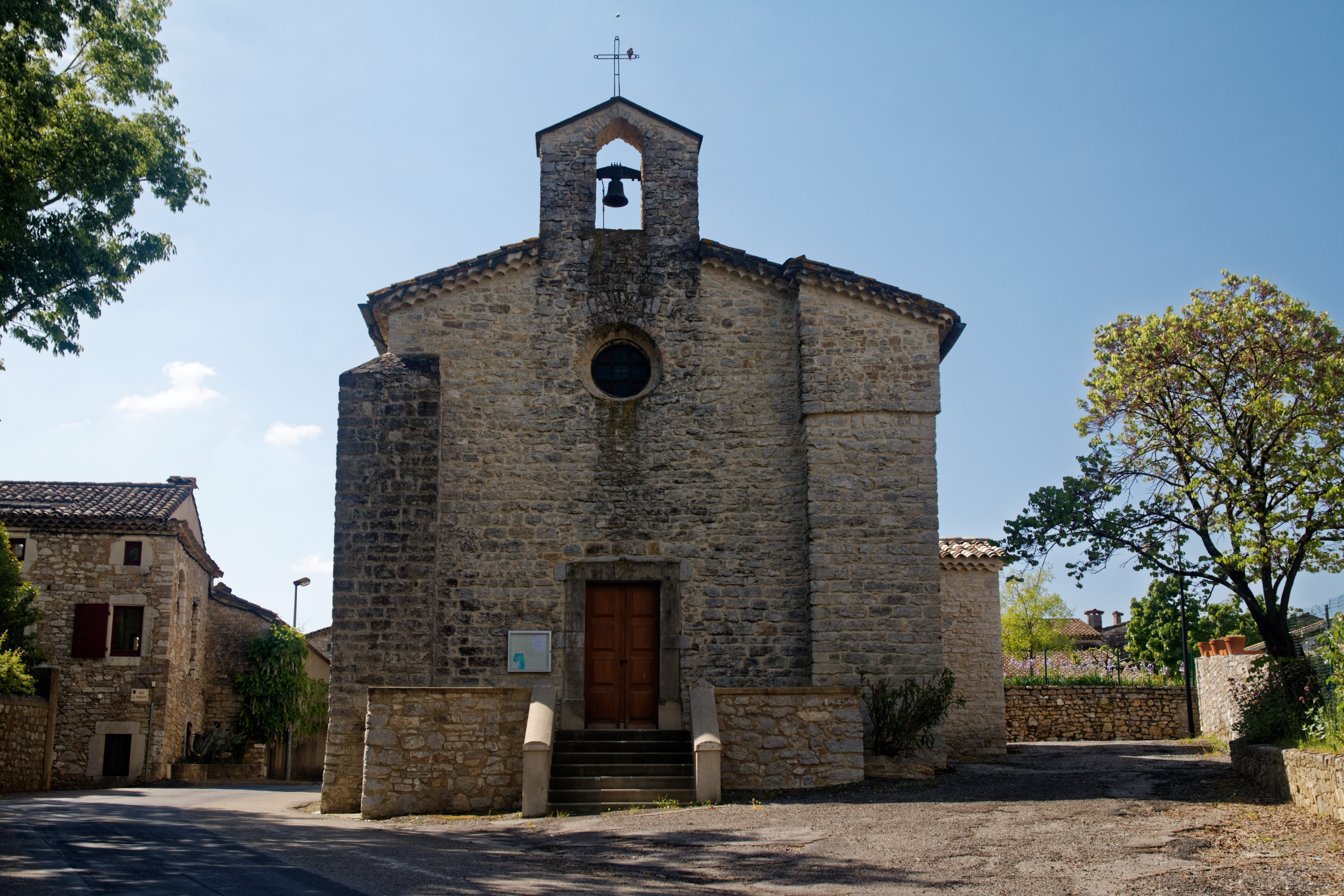 St Martin's church.